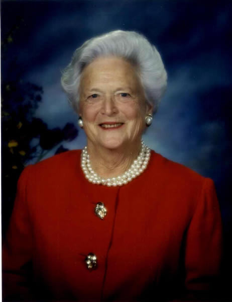 Former First lady Barbara Bush